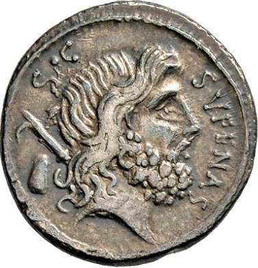 M. Nonius Sufenas Denar 59 v. Chr., Rom. Kopf des Saturn mit Harpa Crawford 421, 1